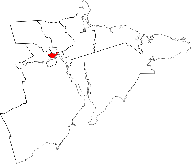 The riding of Moncton South in relation to other southeastern New Brunswick electoral districts